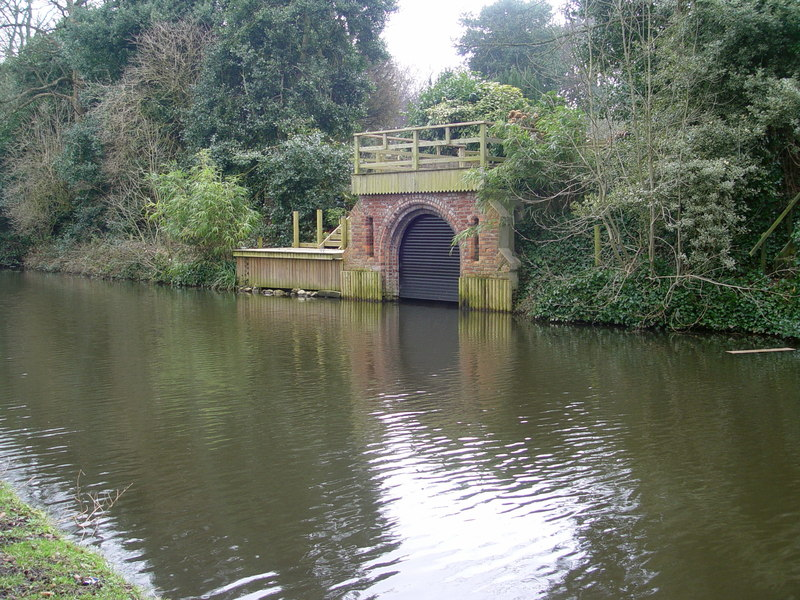 Boathouse On The Lancaster Canal In the village of Aldcliffe.